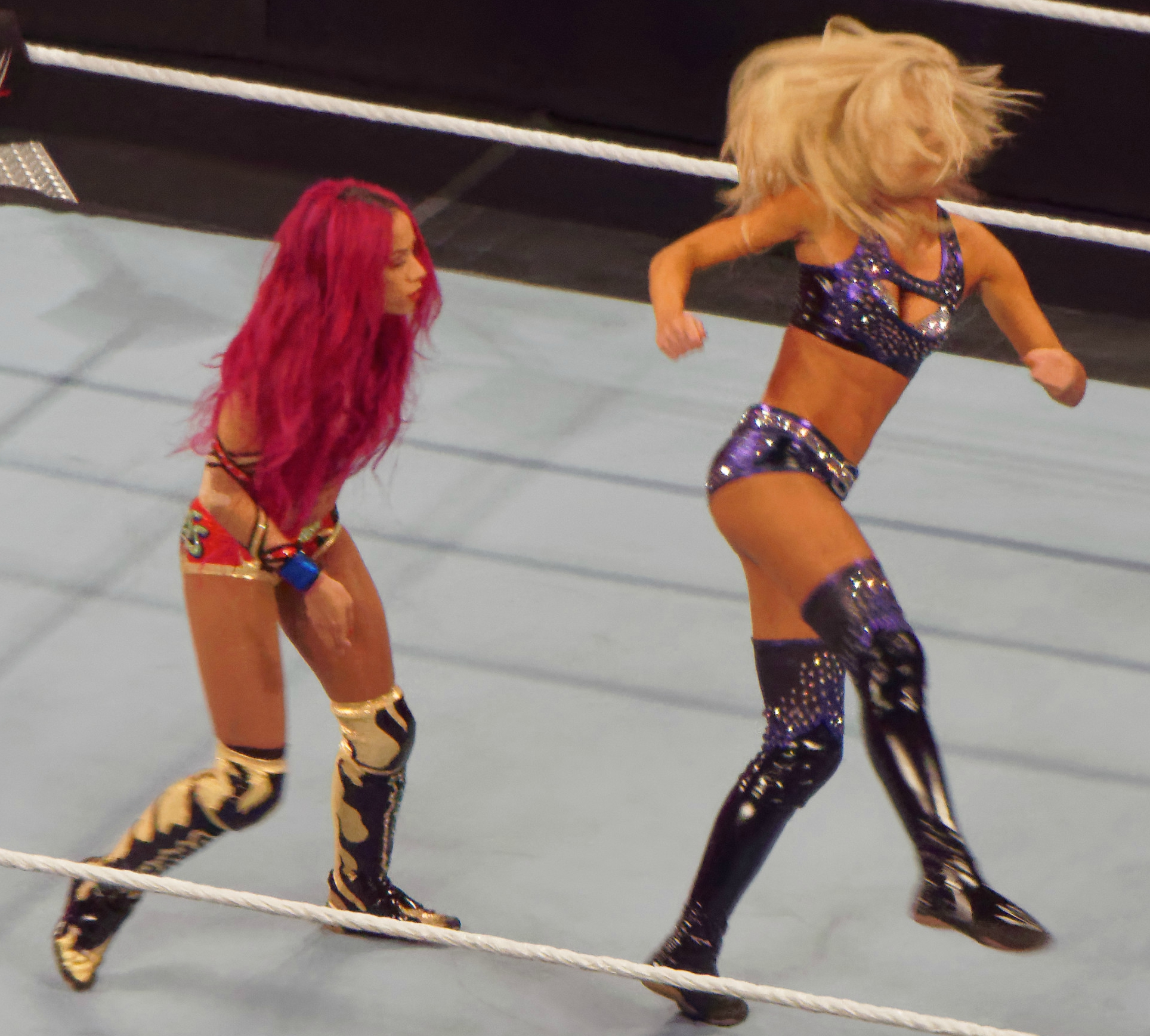 Summer Rae setting up to perform her signature "Spinning Heel Kick" on Sasha Banks the night after WrestleMania 32 on Raw in April 4, 2016.